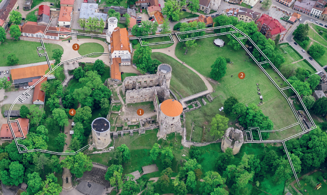 Aerial view of Cesis Castle